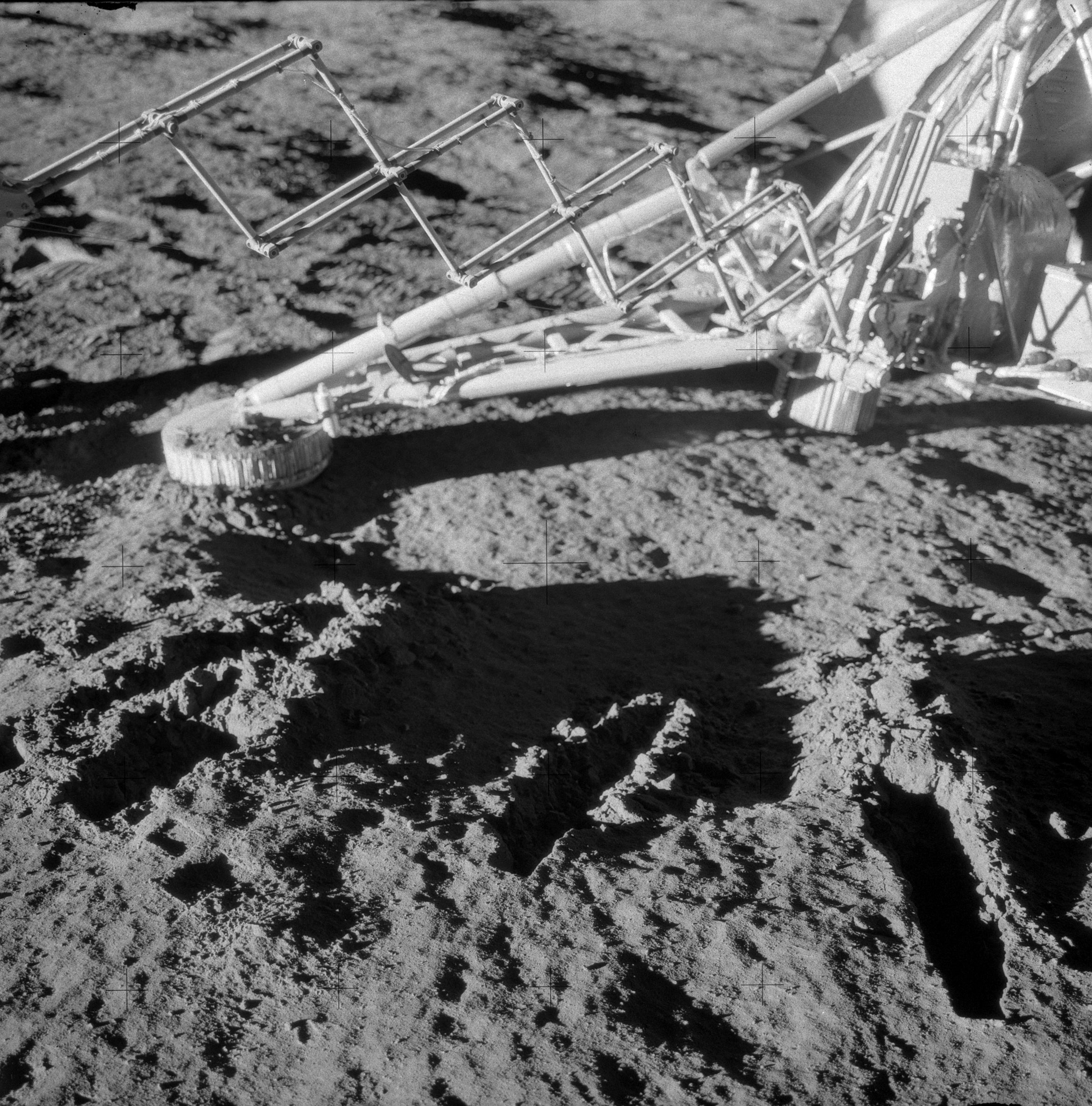 Surveryor scoops